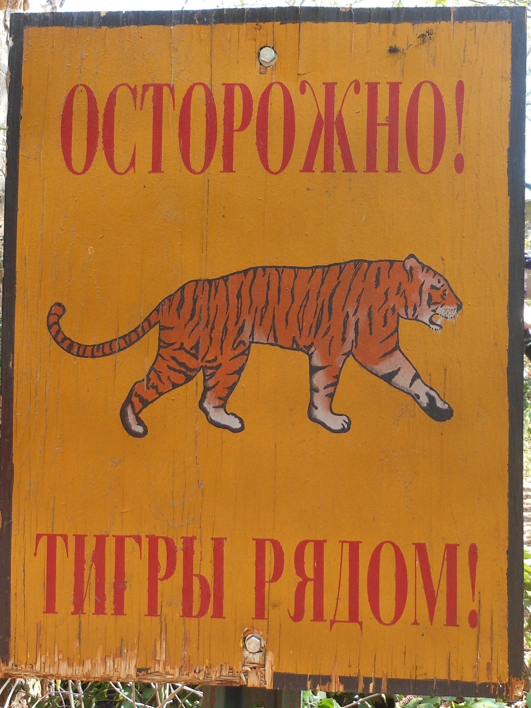 Siberian tiger depicted on sign with "beware of tiger" in Russian (Cyrillic text).